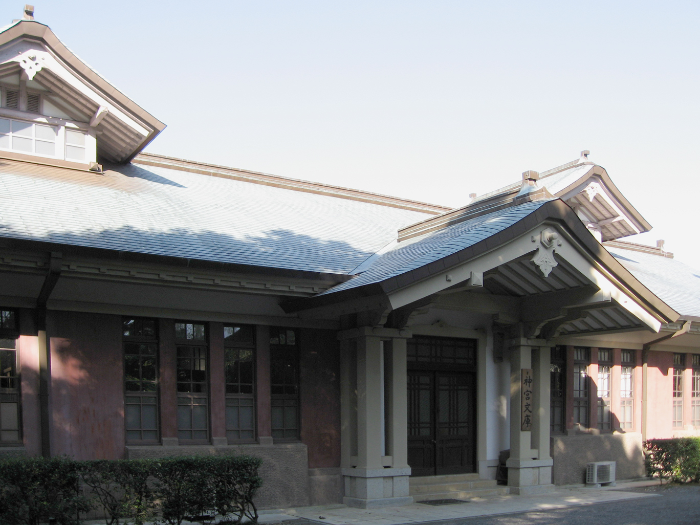 The main building of Jingu Bunko I took this image at Koda-kushimoto Ise Mie Pref., Japan. 神宮文庫本館 三重県伊勢市神田久志本町にて投稿者撮影